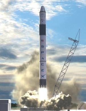 Computer simulation of SpaceX's Falcon 9 rocket lifting off from Launch Complex 40 (SLC-40) at Cape Canaveral, Florida.